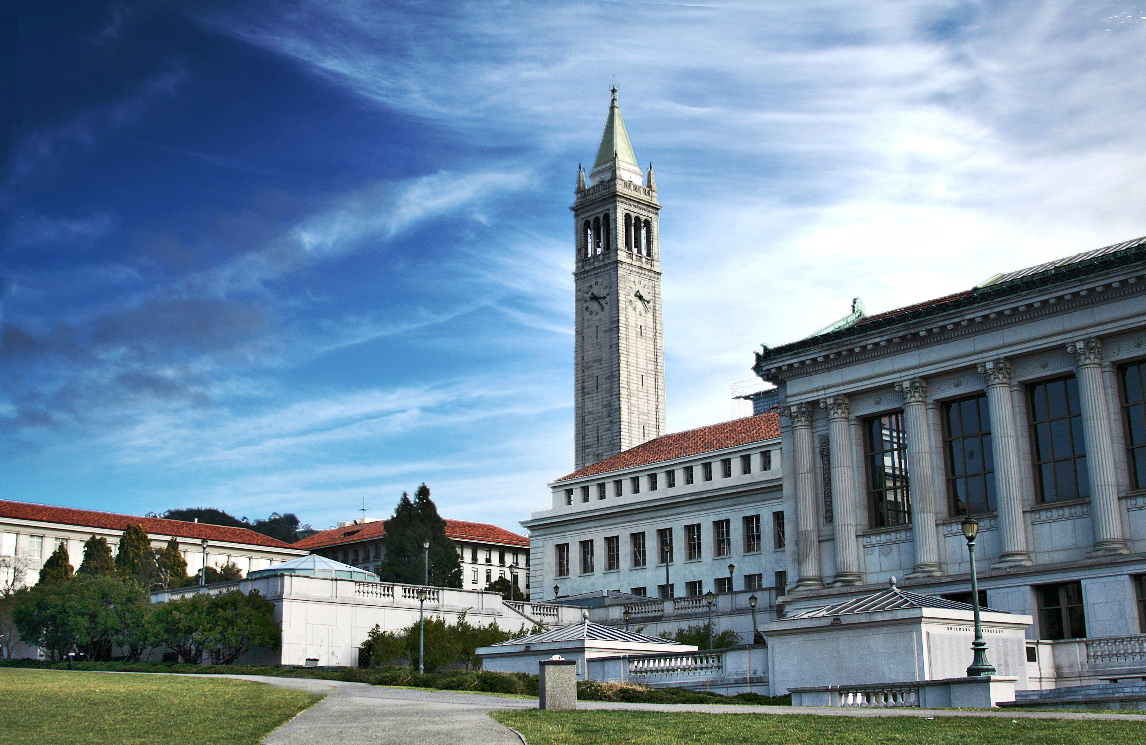 Campus of the UC Berkeley in Berkeley, California, United States. Photo taken on Memorial Glade, showing the Doe Memorial Library as well as Sather Tower (The Campanile) in the background.